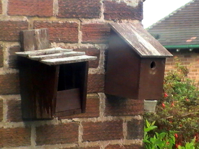 Nesting boxes in the backyard of LordNatonstan at English Wikipedia.